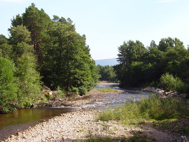 River Druie. Drains Glen More, when the skiers have finished with it, the snow ends up here. Taken from Inverdruie, near its confluence with the Spey.